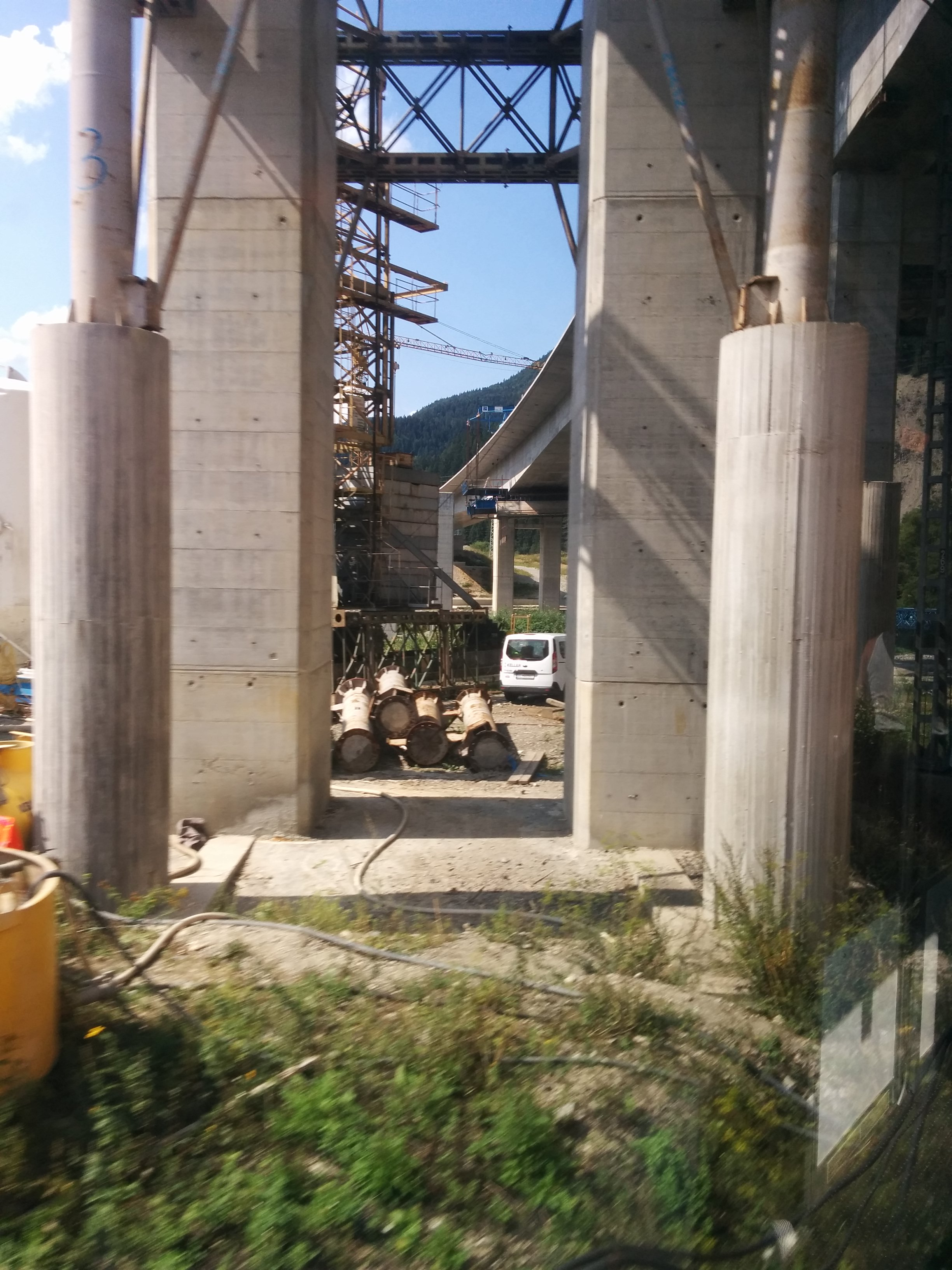 Highway D1 under construction in Ružomberok and Hubová, Slovakia.